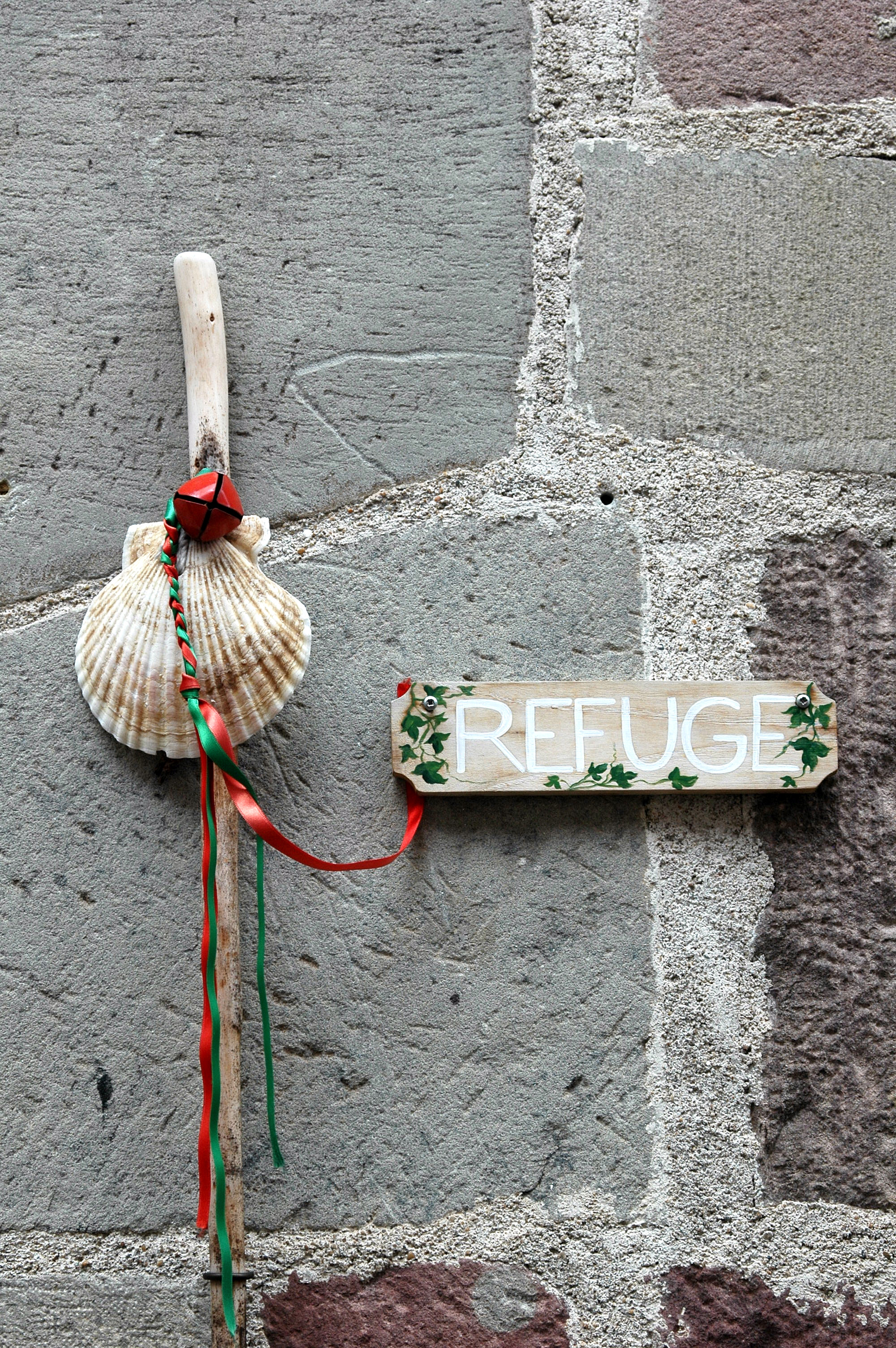 Saint-Jean-Pied-de-Port, welcoming pilgrims the way to Saint Jacques de Compostela